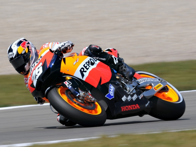 Dani Pedrosa 2010 Assen